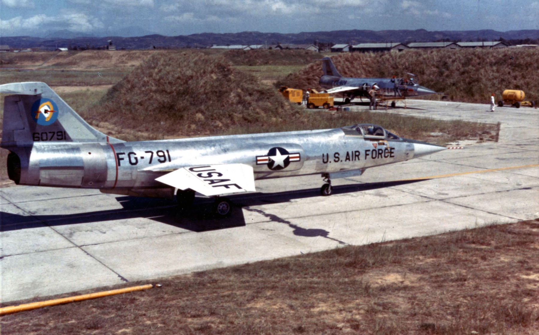 A U.S. Air Force Lockheed F-104A-20-LO Starfighter (s/n 56-0791) of the 83rd Fighter Interceptor Squadron at Taoyuan Air Base, Taiwan, on 15 September 1958, during the Quemoy Crisis (Operation "Jonah Able").